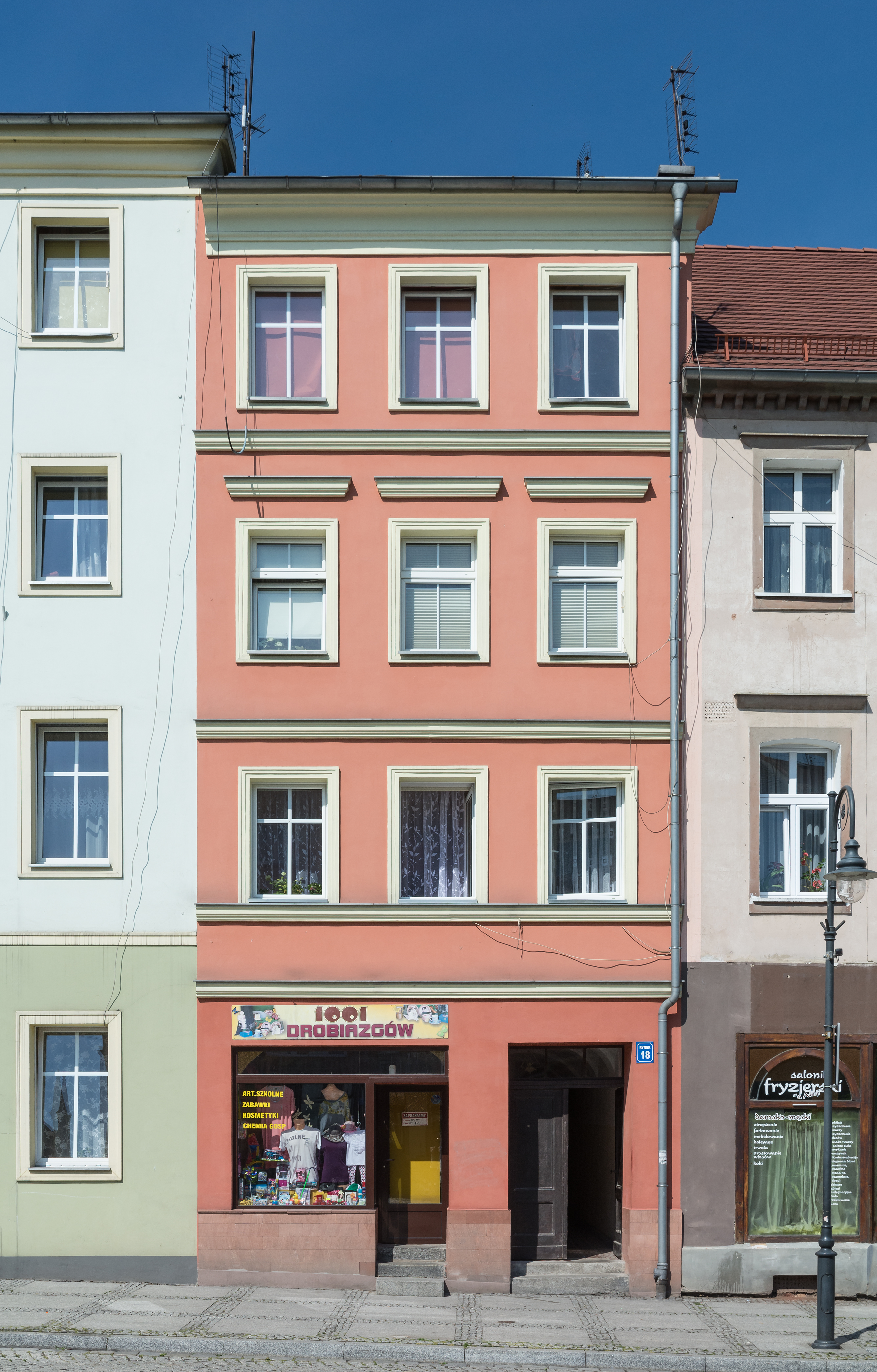 18 Market Square in Niemcza